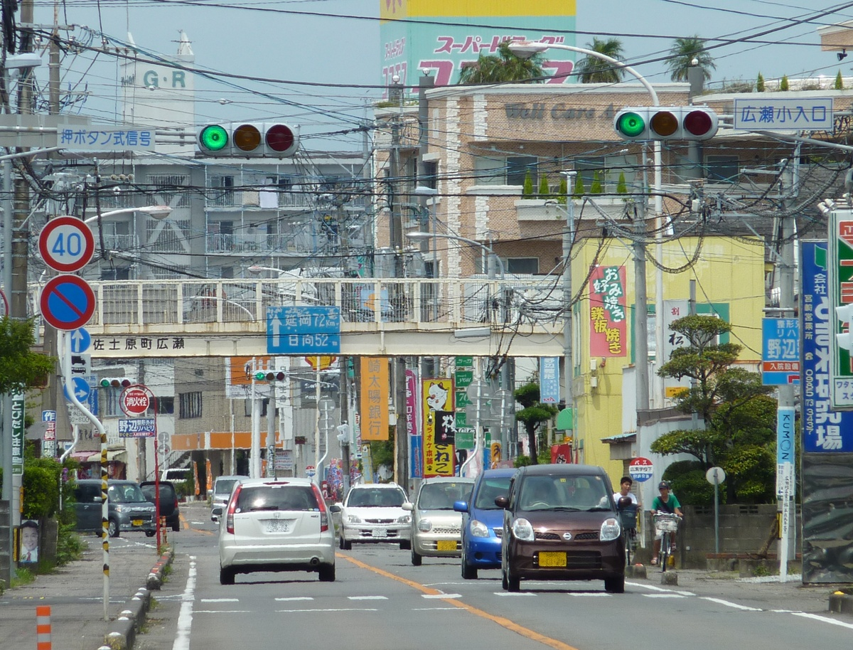 Miyazaki Prefectural Road No.10 Miyazaki IC-Sadowara Line (Hirose, Sadowara, Miyazaki City, Japan)